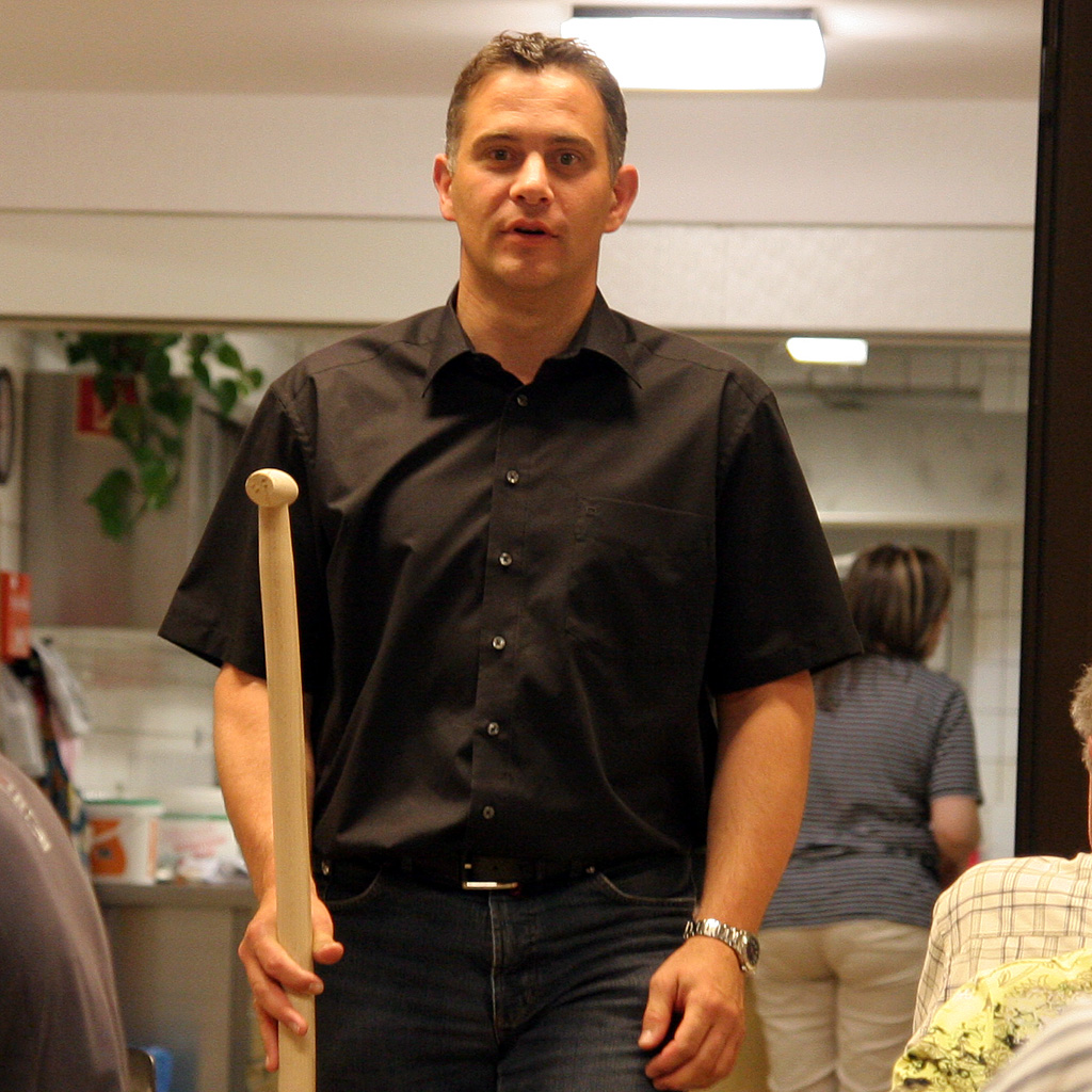 Jörg Lautenschläger, major of the township Modautal in Hesse